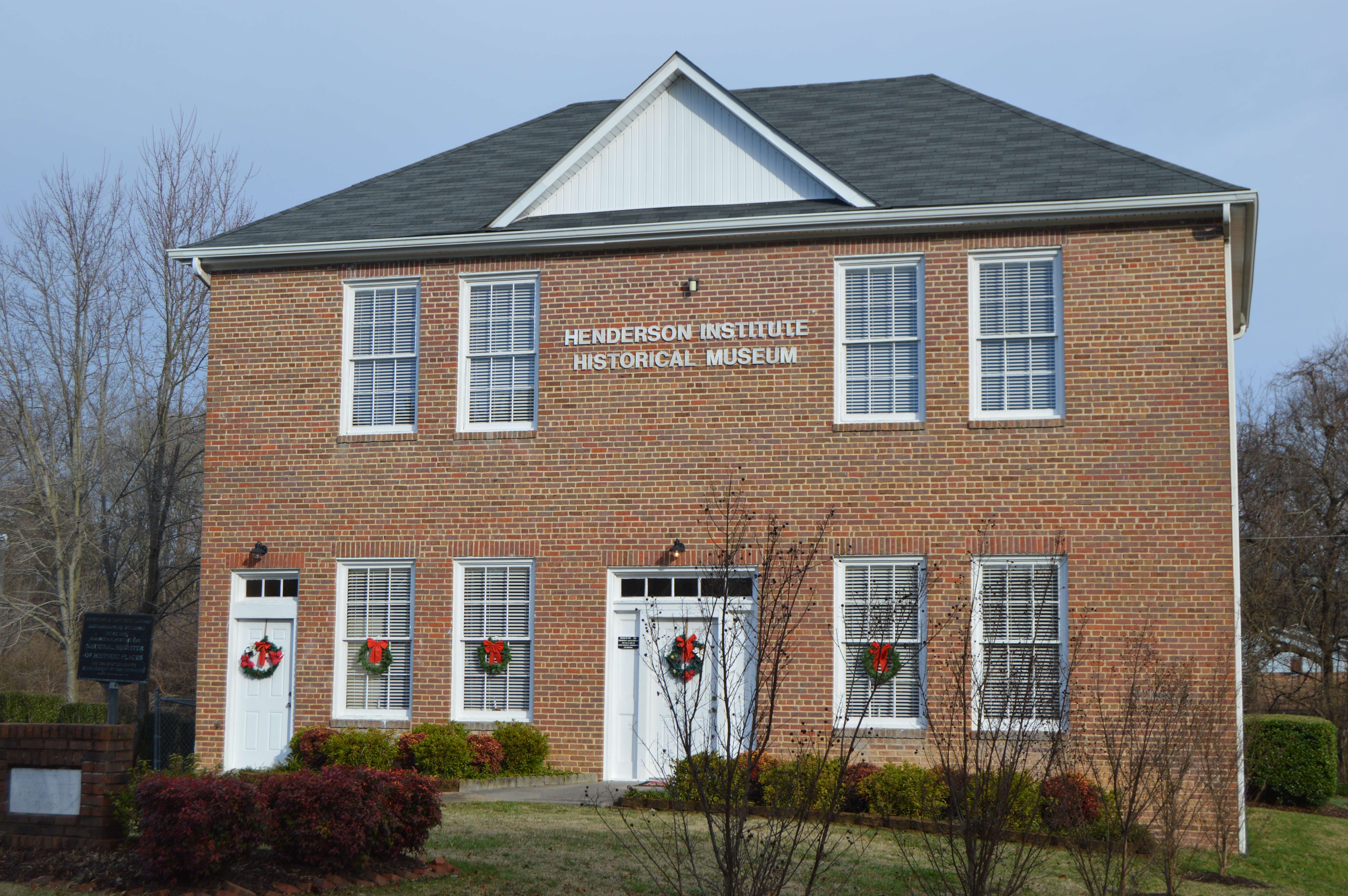 Front of the former Library and Laboratory Building at Henderson Institute, located at 629 W. Rock Spring Street in Henderson, North Carolina, United States. Built in 1928, it is listed on the National Register of Historic Places.